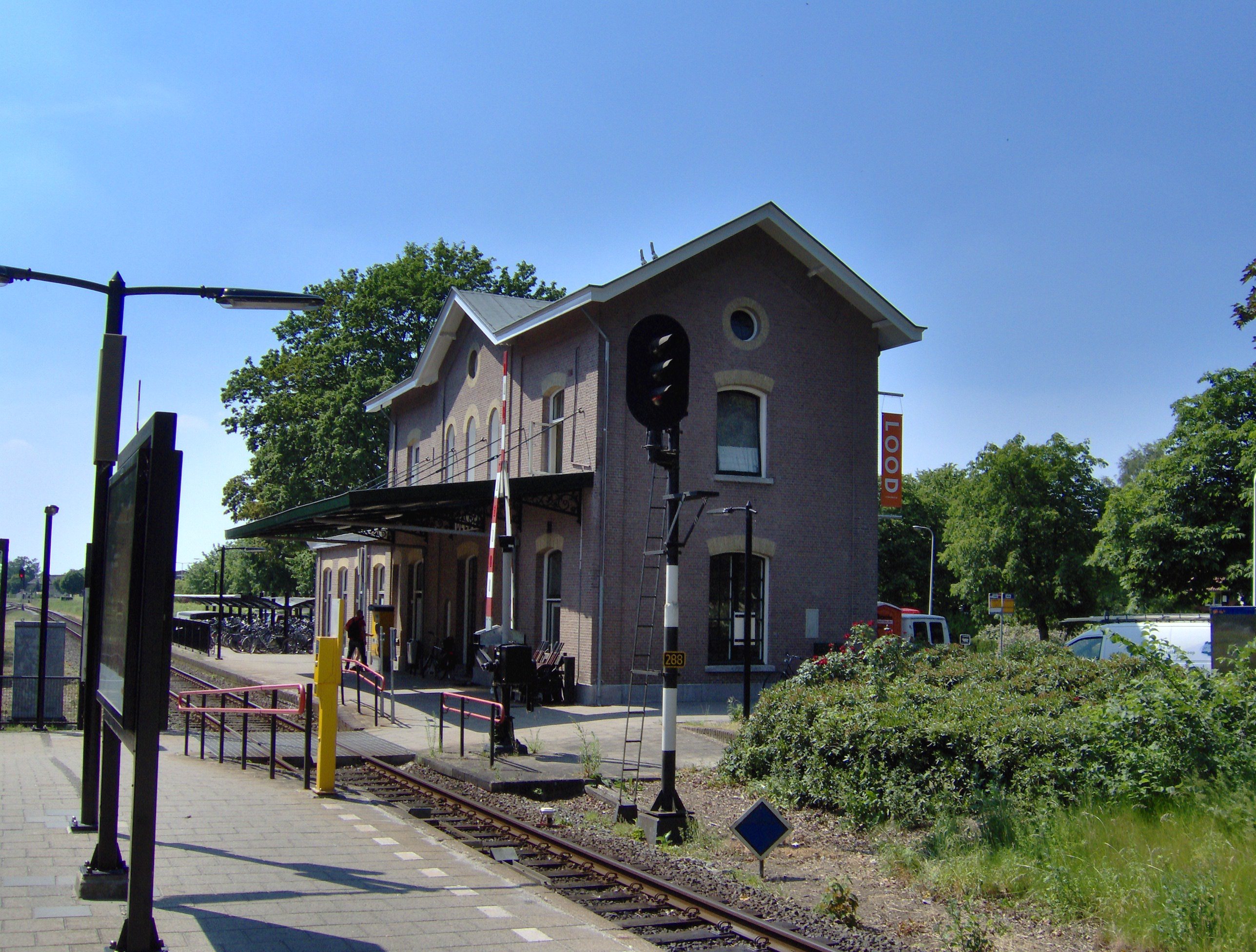 The Dutch railway station of Delden, a city in the municipality Hof van Twente, Netherlands